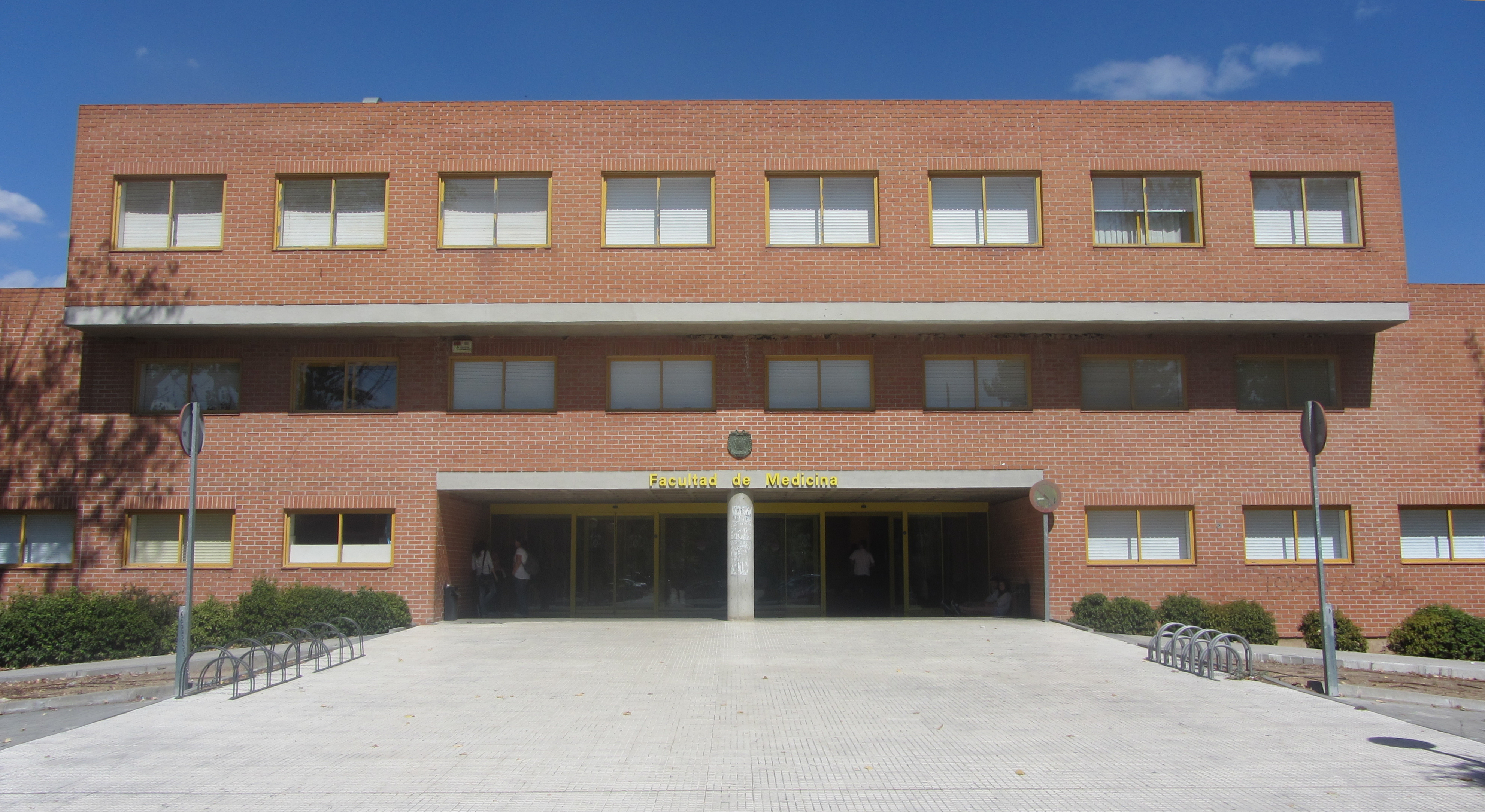 View of Medical School in Alcalá de Henares (Community of Madrid - Spain).